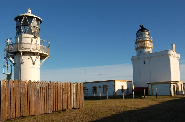 Lighthouses at Kinnaird Head The new, current, light is on the left and the historic original lighthouse on the right. The 16th century castle was altered to become the first proper lighthouse in Scotland in 1787. The lighthouse as seen today was constructed, inside the castle(!) in 1824. The lighthouse keepers cottages followed in 1902. The lighthouse was decommissioned in 1991.